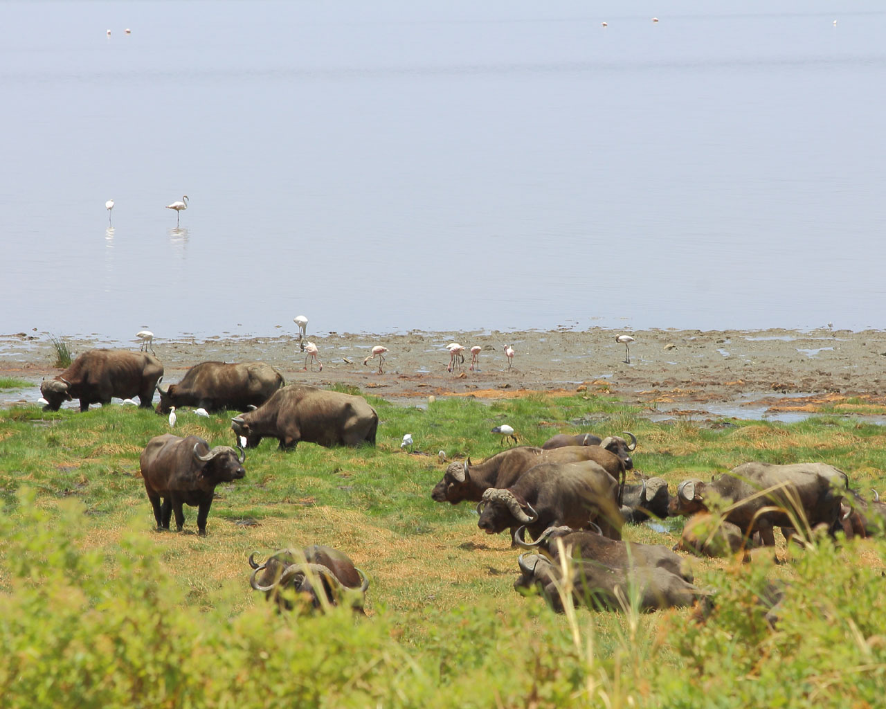 Buffalos on coast of Lake Manyara